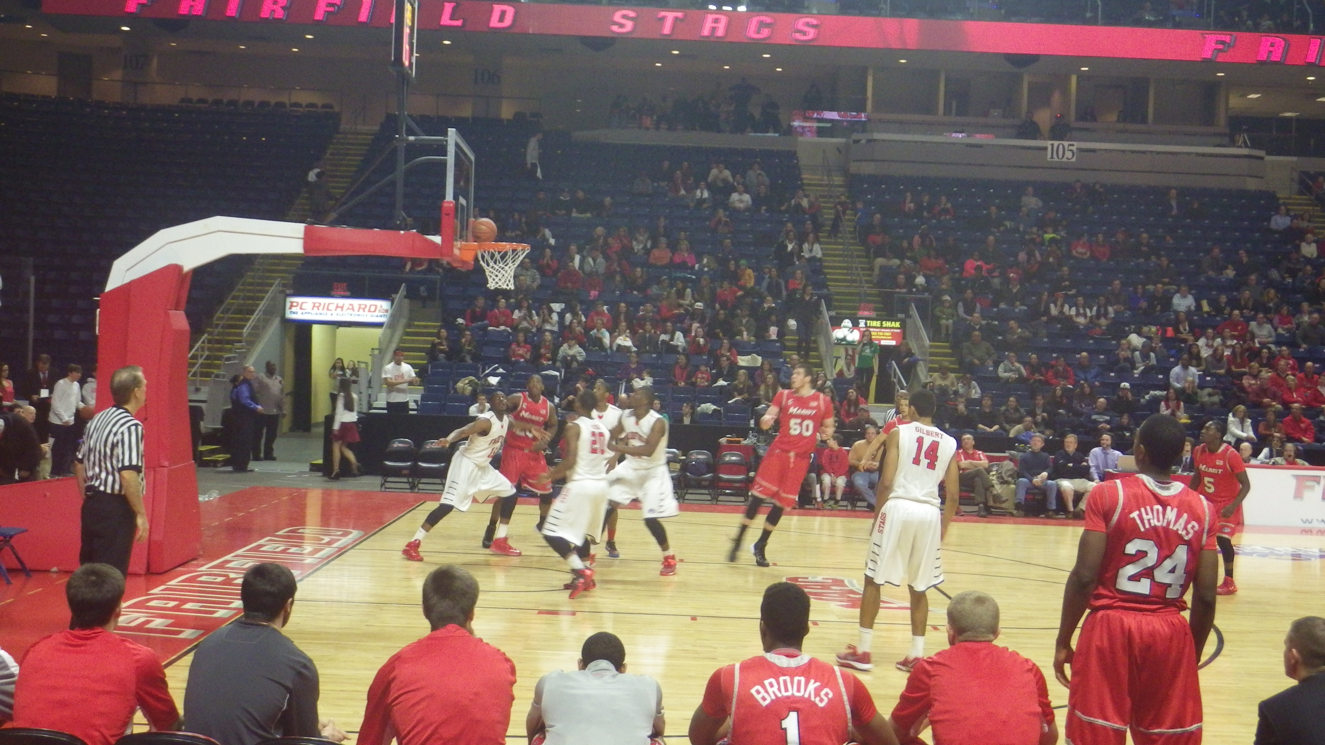 Marist vs Fairfield